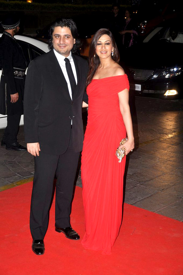 Goldie Behl with his wife Sonali Bendre at Karan Johar's 40th birthday bash at Taj Lands End